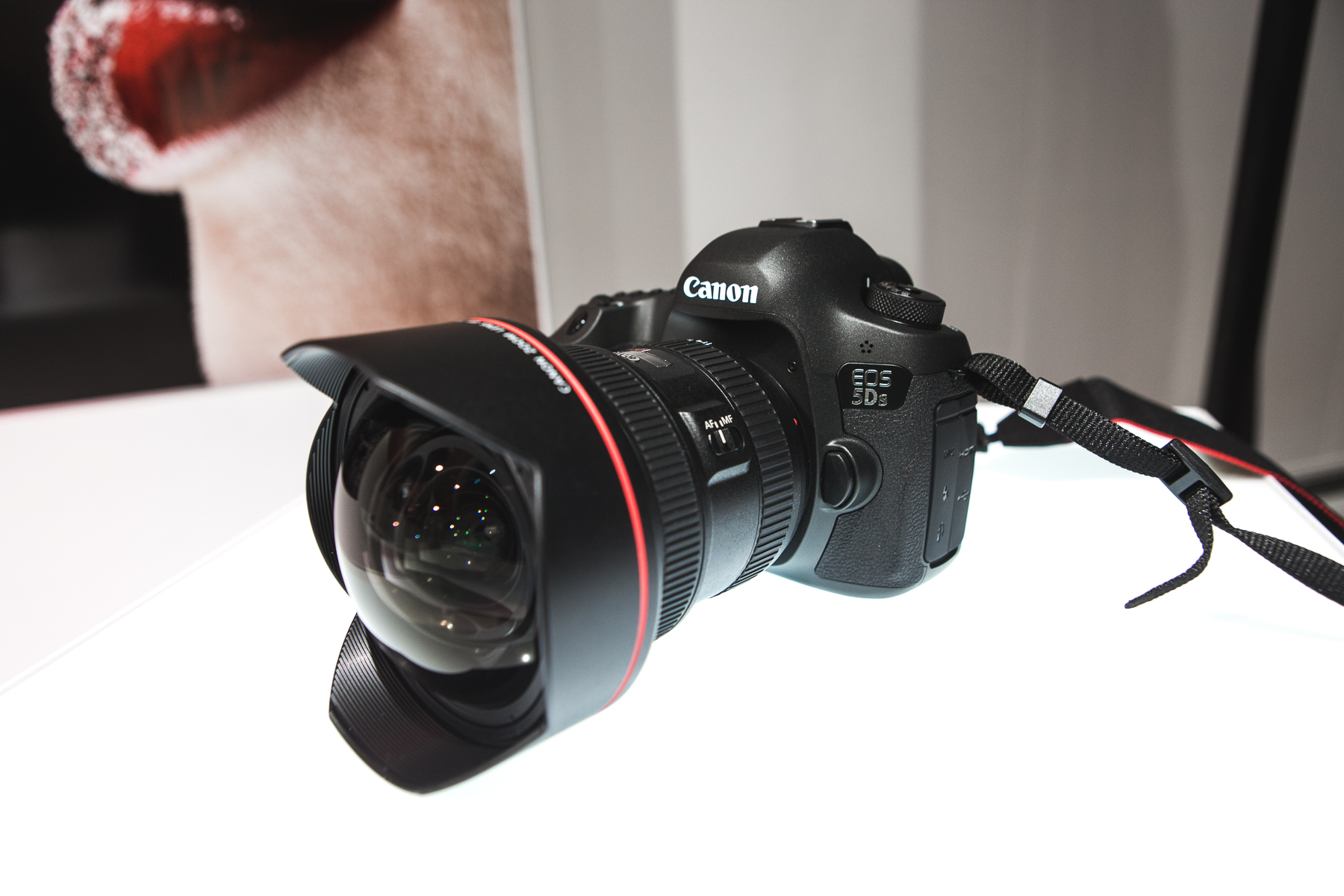 Canon EOS 5DS with lens